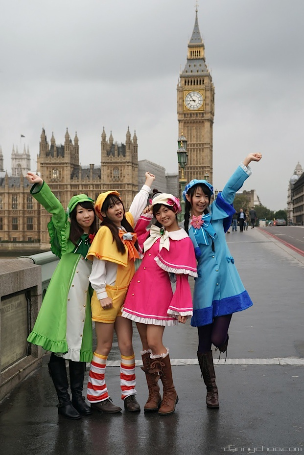 The latest bunch of Culture Japan posts below. Next up is photos at the Production I.G studios with the CEO. - How to Become a Ninja - Mirai Itasha - Milky Holmes - Japanese High School Photos - Matsuri - Volks Store - Culture Japan Studio Recording EP 1 & 2 - Shiori Mikami - School Girl's Fate - Culture Japan Episode 0 Uploaded - View more... View more at